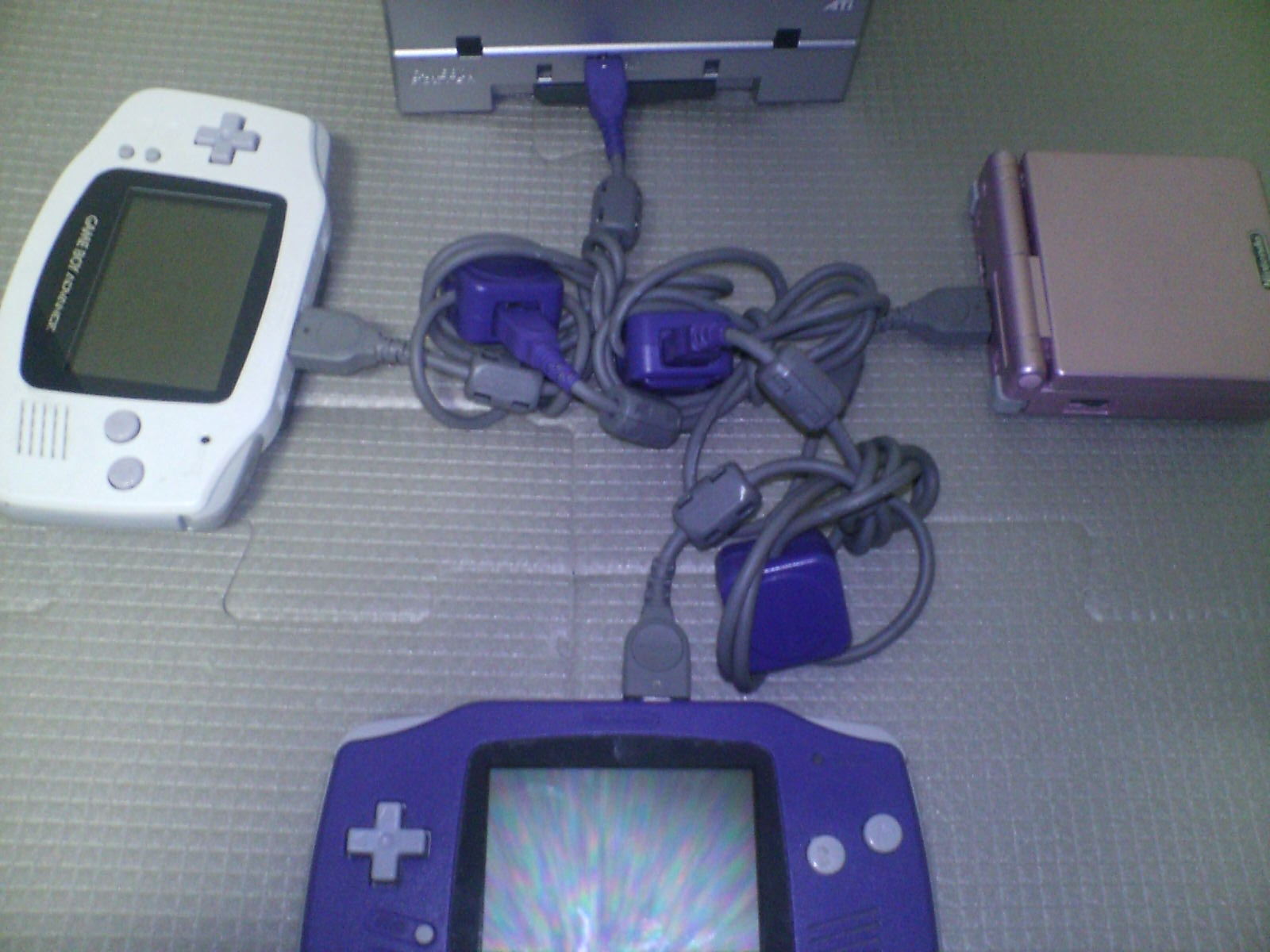 Game Boy Advance 4 Players connection sample In this picture, Player number is assigned to: Player 1 : Gamecube (Silver, with Game Boy Player : Up) Player 2 : Game Boy Advance (White : Left) Player 3 : Game Boy Advance SP (Pearl Pink : Right) Player 4 : Game Boy Advance (Violet : Bottom)